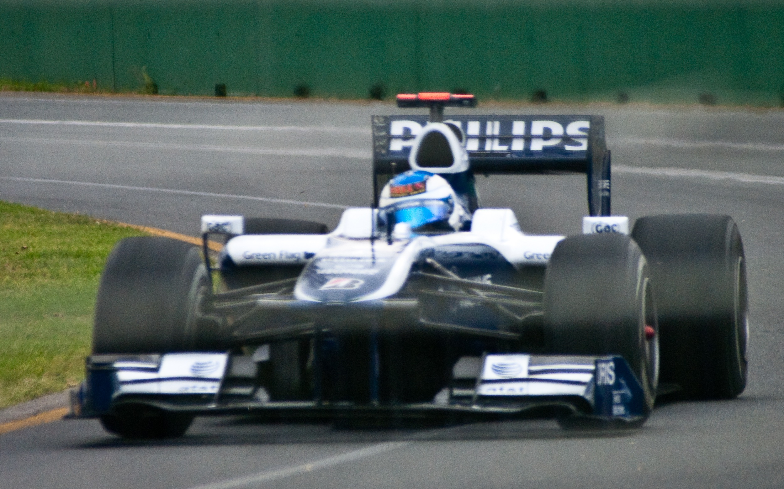 Barrichello in Melbourne